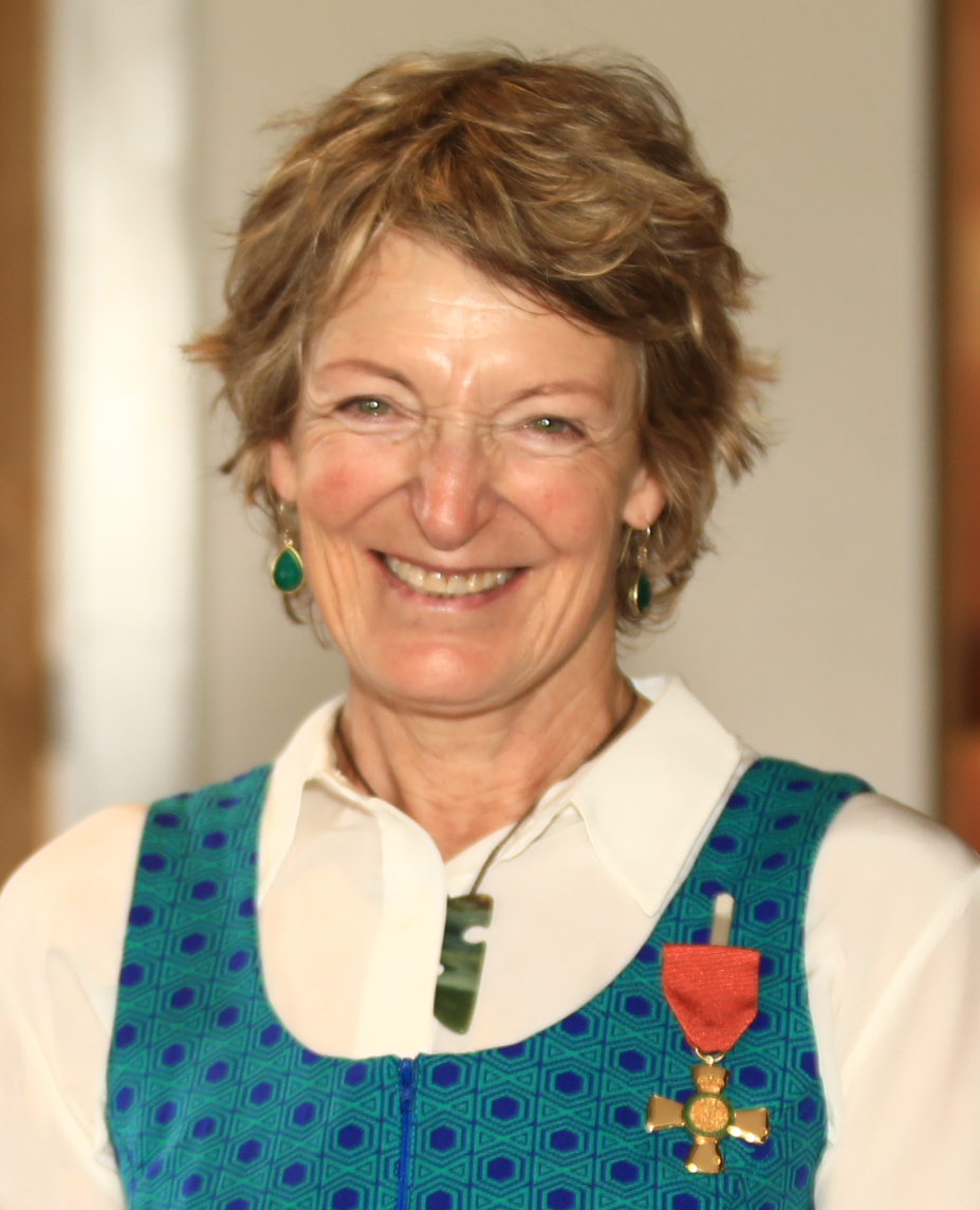 Lydia Bradey, after her investiture as ONZM, for services to mountaineering, at Millbrook Resort, near Queenstown, on 5 August 2020.